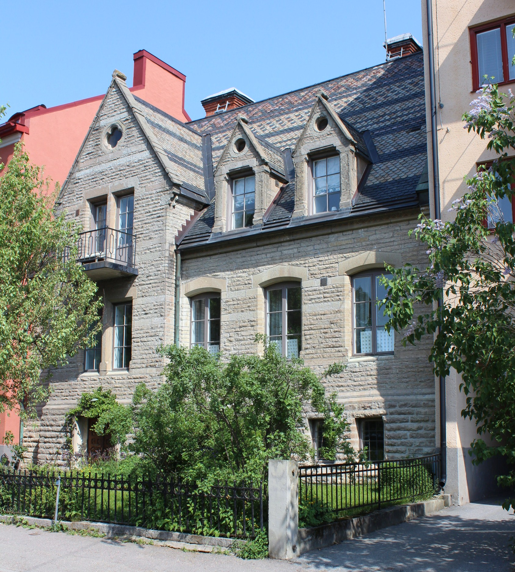 Architect Adolf Kjellström's own villa in Örebro in street 51 Nygatan